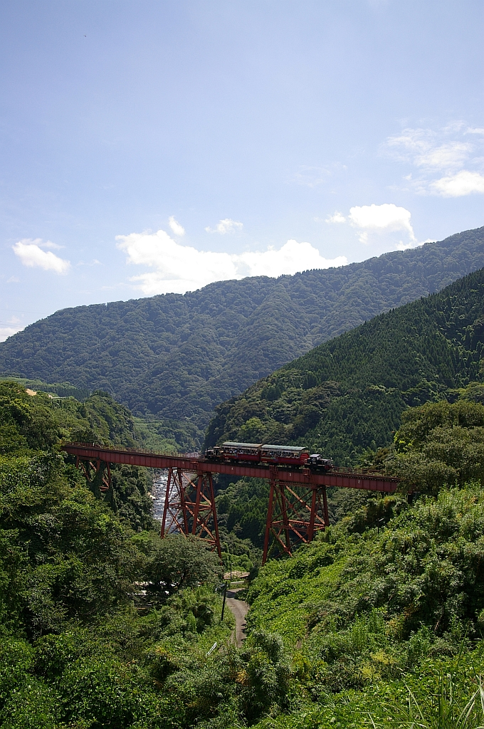 Tateno Bridge of Minami Aso Railway